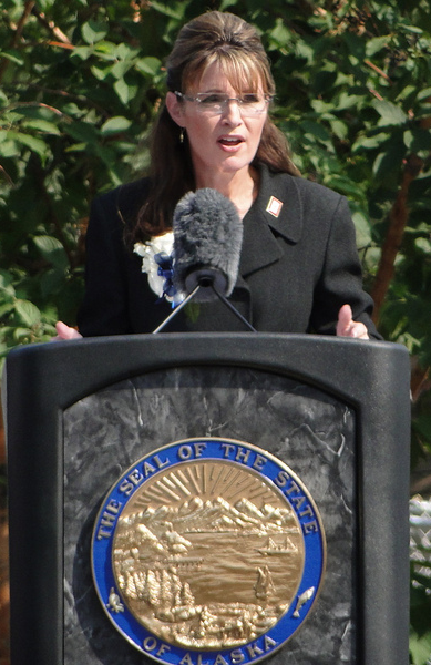 Her last speech as governor